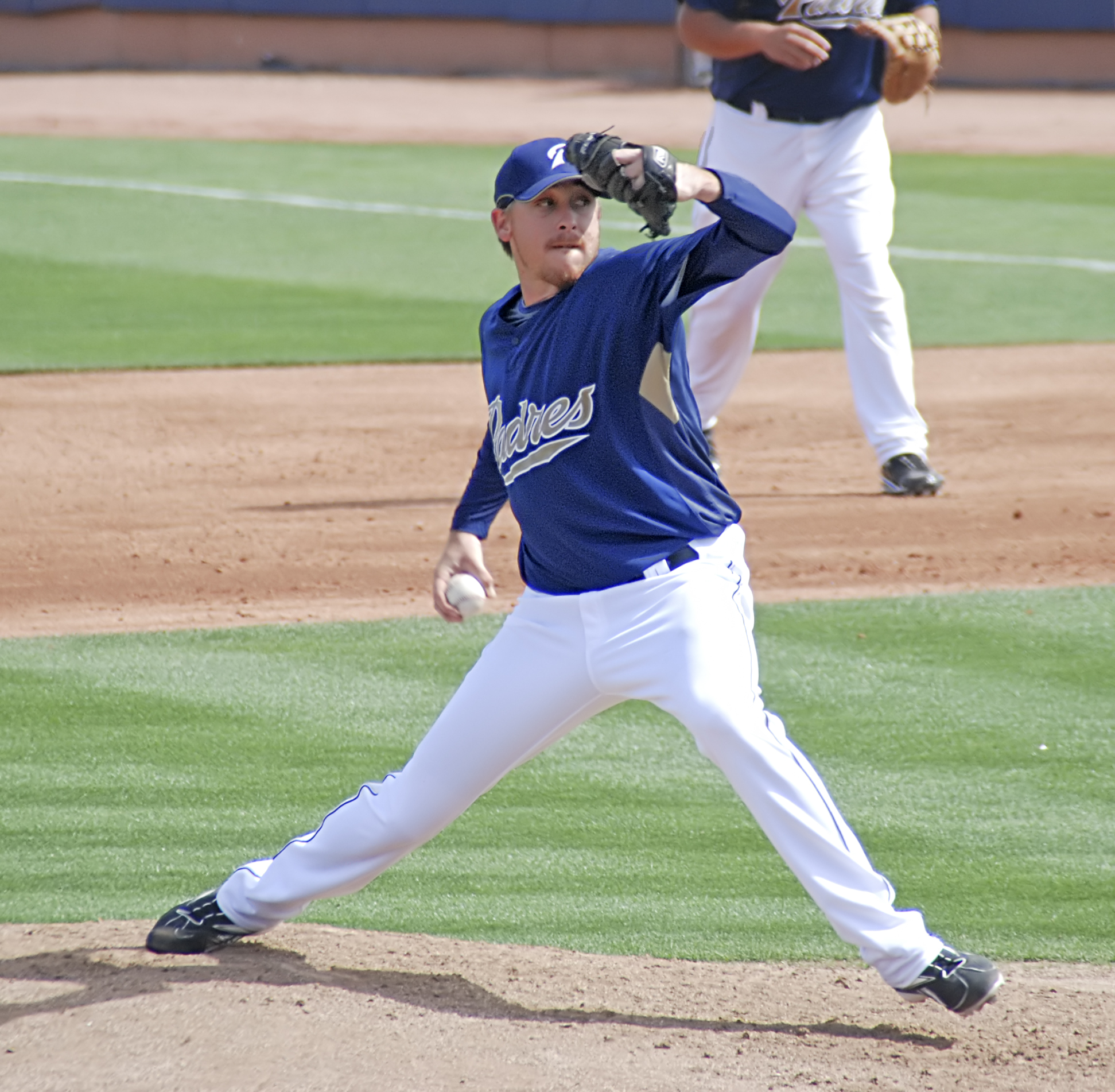 Kevin Correia pitcher for the San Diego Padres spring training baseball